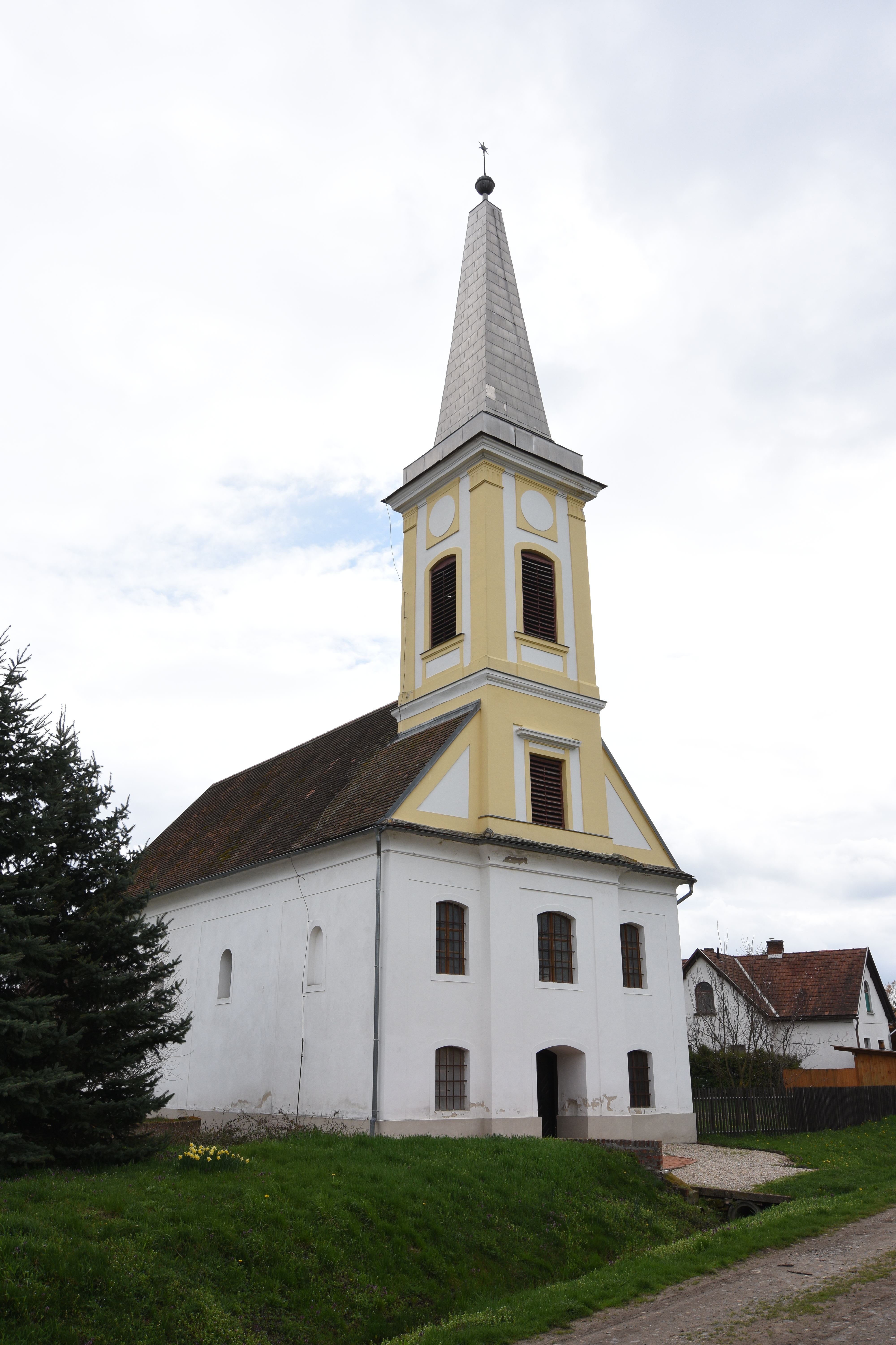 Református templom Egyházasszecsőd Reformed Church